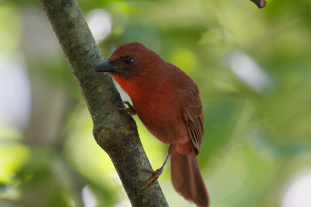 A male Red-throated Ant-tanager in Belize.